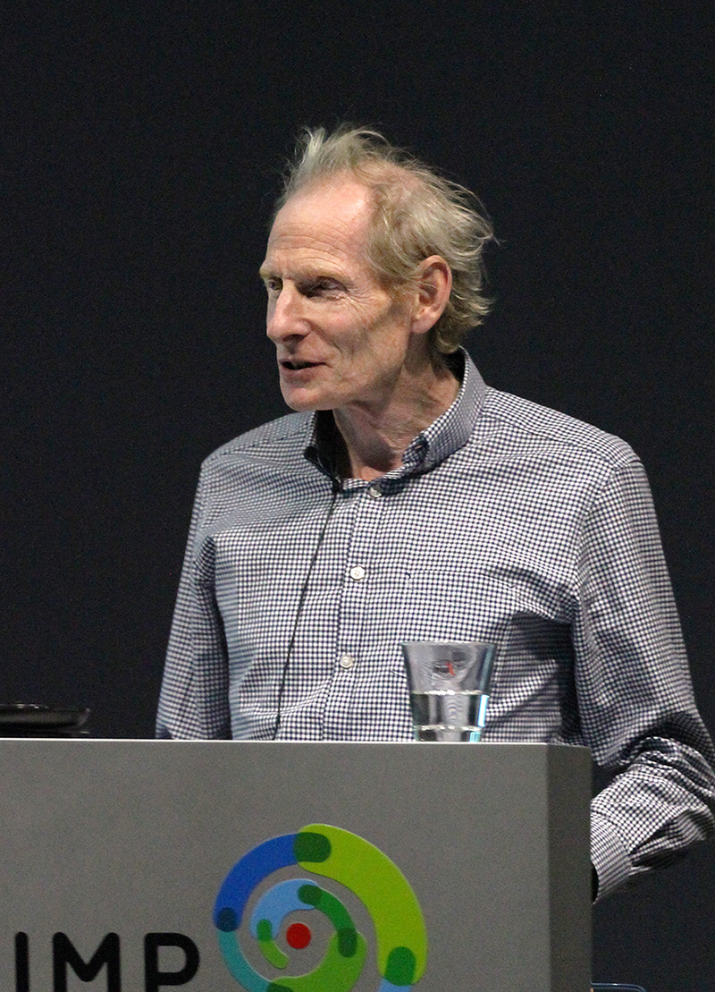 Kim Nasmyth speaking in October 2017